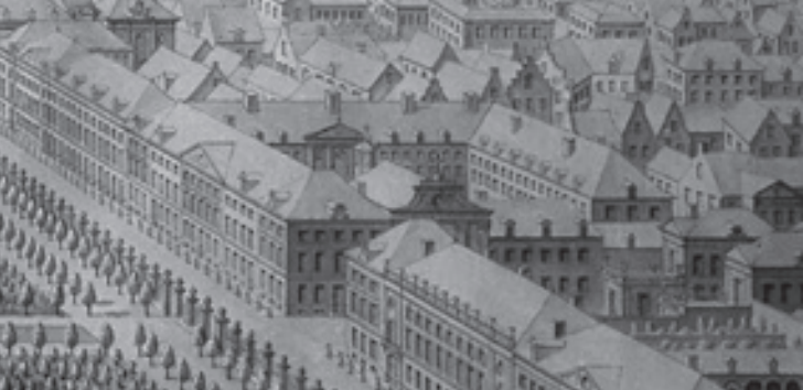 Small Beguinage, Brussels. Detail of an engraving by François Lorent.